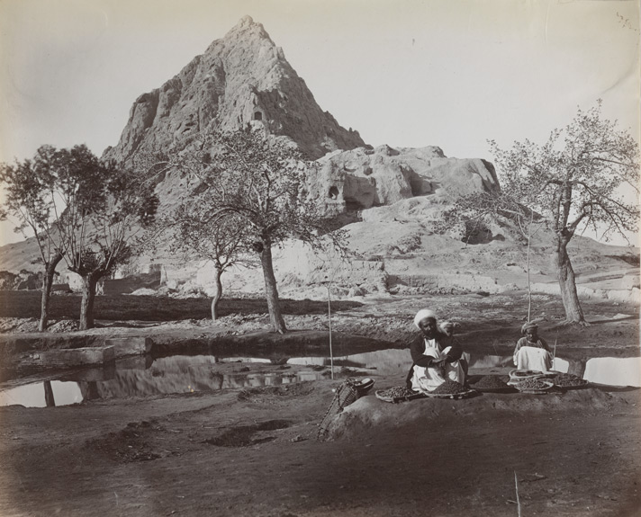 Chilzina or the 40 Steps [Kandahar]. Photograph of Chilzina in Kandahar from the 'Bellew Collection: Photograph album of Surgeon-General Henry Walter Bellew' taken by Sir Benjamin Simpson c.1881. Kandahar is the second largest city in Afghanistan and is situated in the south of the region. Chilzina is a rock-cut chamber on the northern side of the old citadel and is accessed by forty steps. A Persian incription at the site reveals that the chamber was completed under the patronage of the Moghul Emperor Babur in the 16th century. The old citadel was destroyed by Nadir Shah Afshar of Persia in 1738.